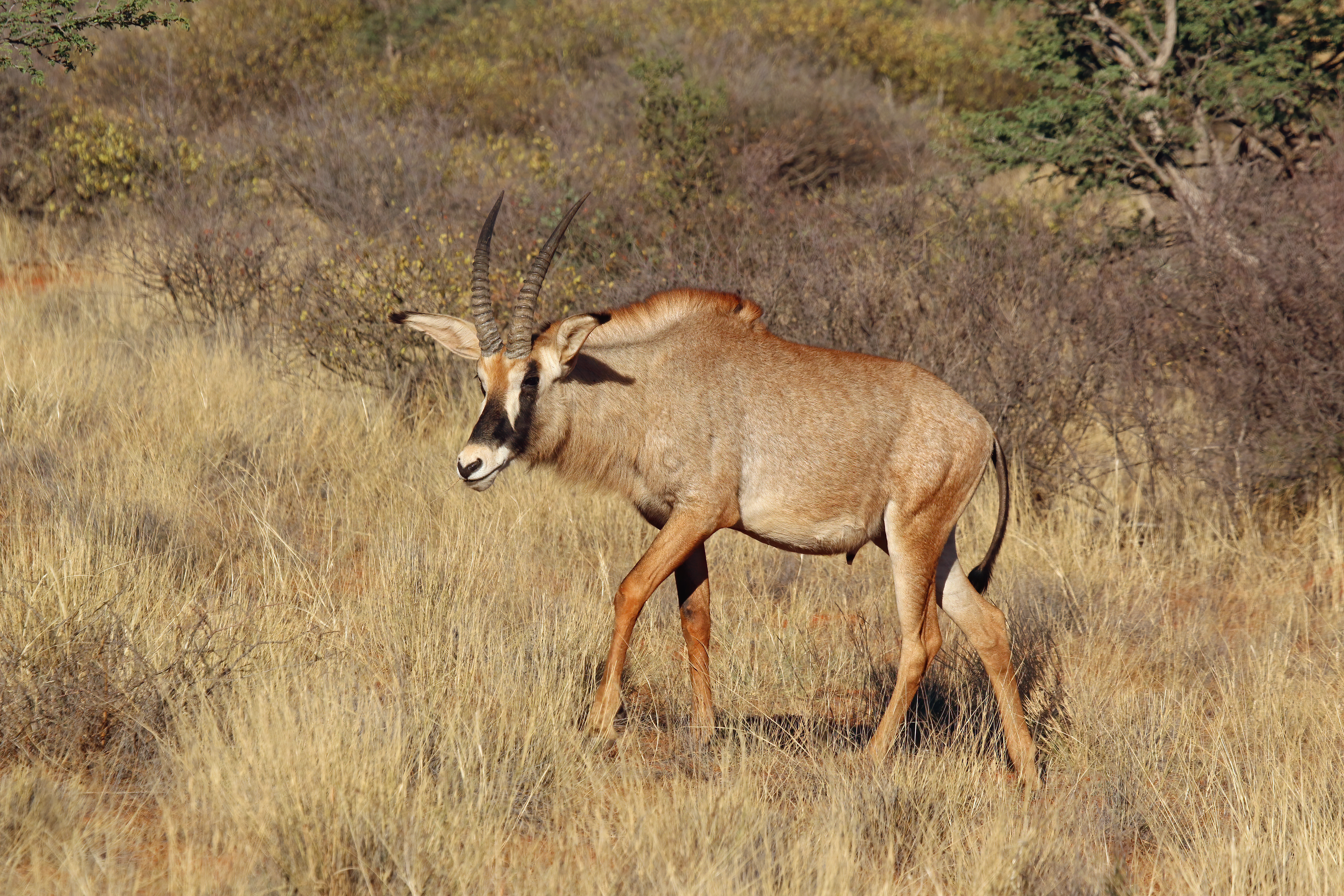 Roan antelope (Hippotragus equinus) male, Tswalu Kalahari Reserve, South Africa